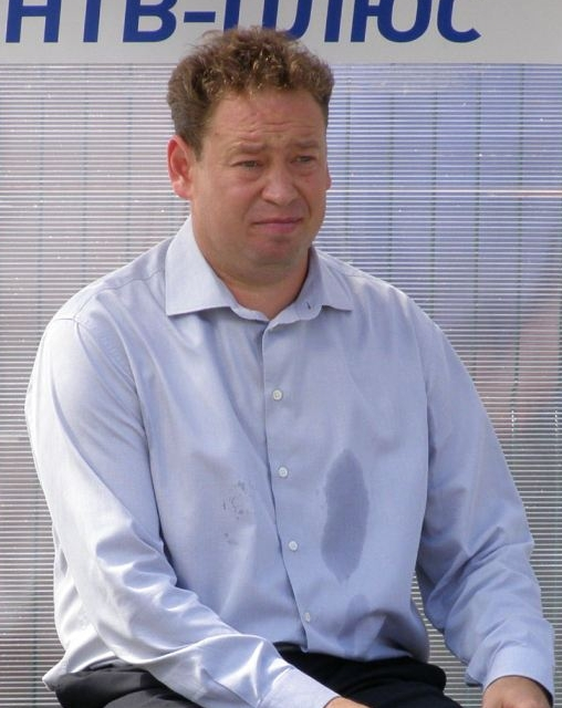 Leonid Slutsky as a head coach of FC Krylia Sovetov